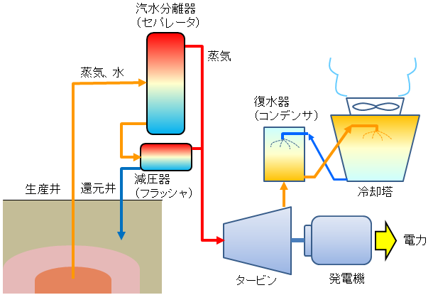 Schematics of a double-flash geothermal power plant. Reference: (Japanese; Click the「システム」 tab)